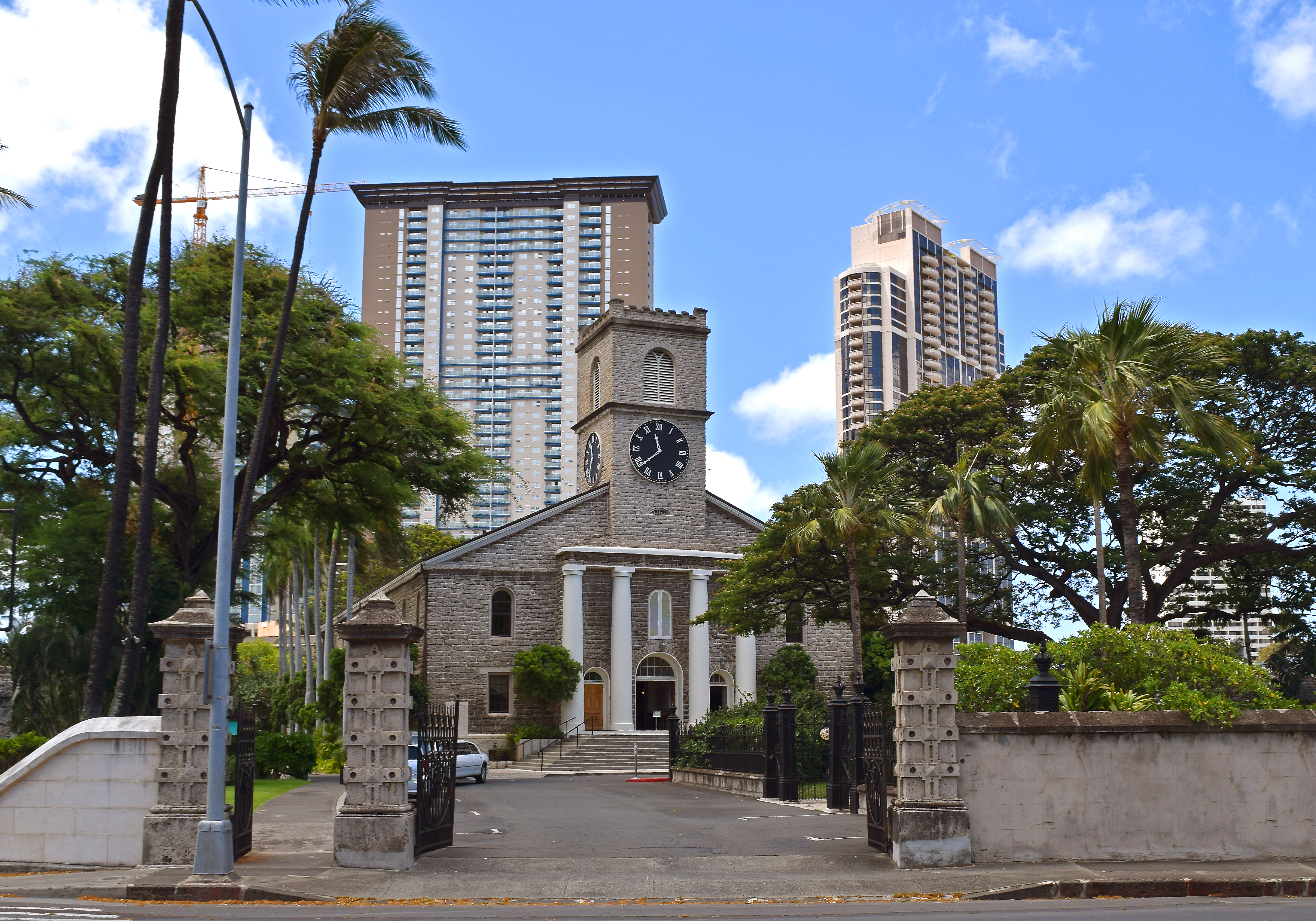 Kawaiaha'o Church and front gate from across the street.